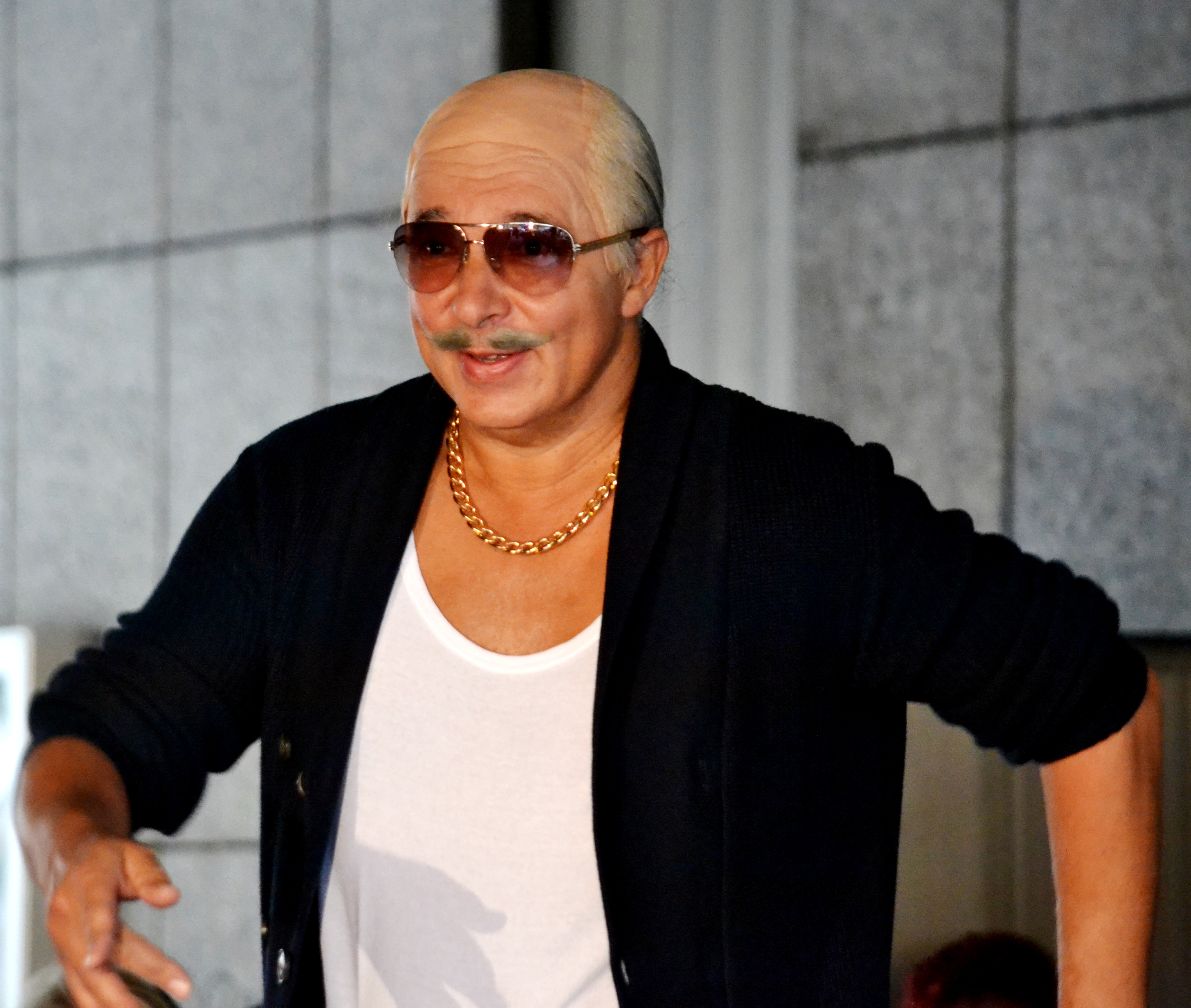 Vladislav Beneš, Czech actor